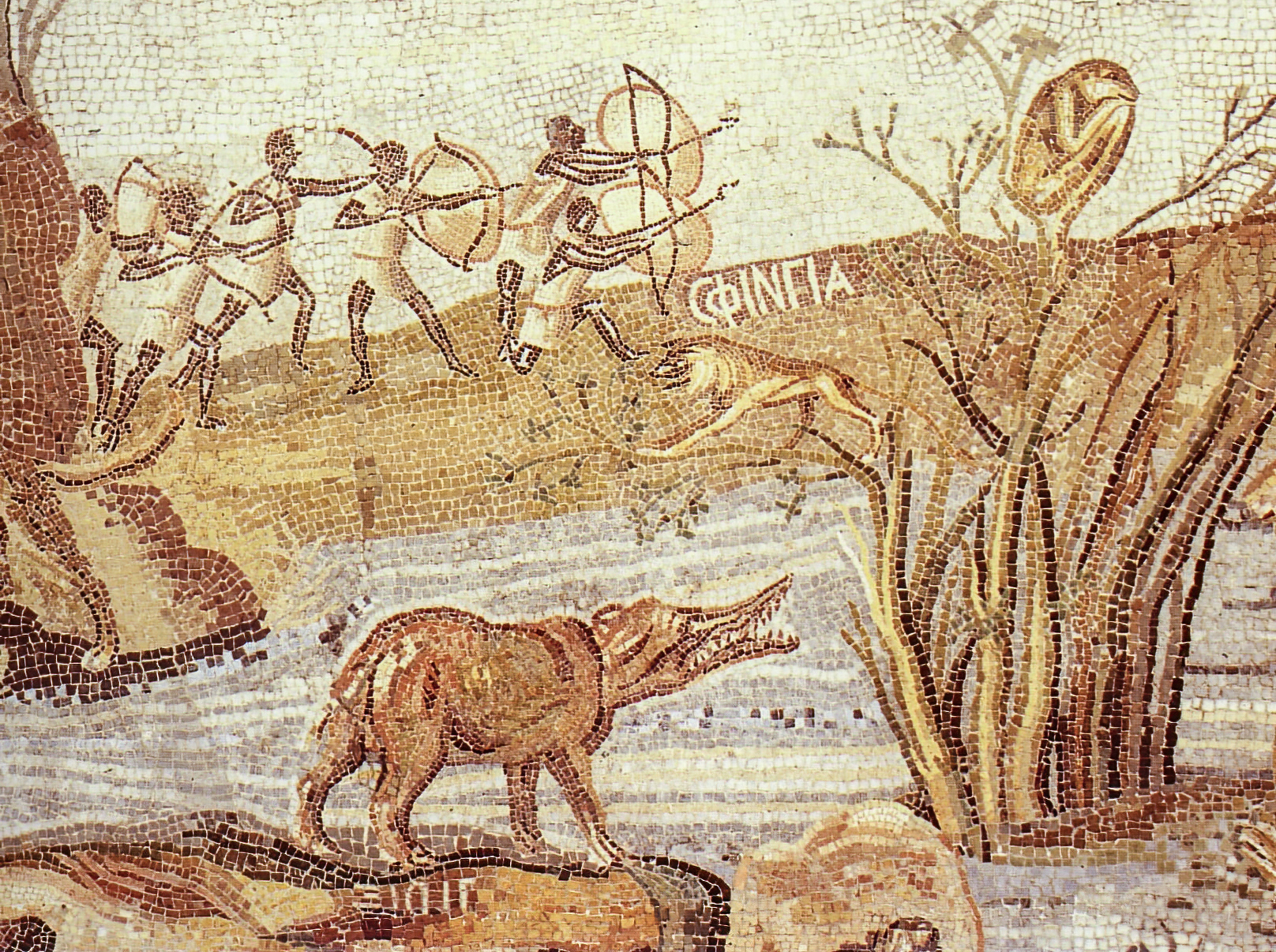 Detail of Nile mosaic from Palestrina (section 2). Museo Nazionale Palestrina, Italy.